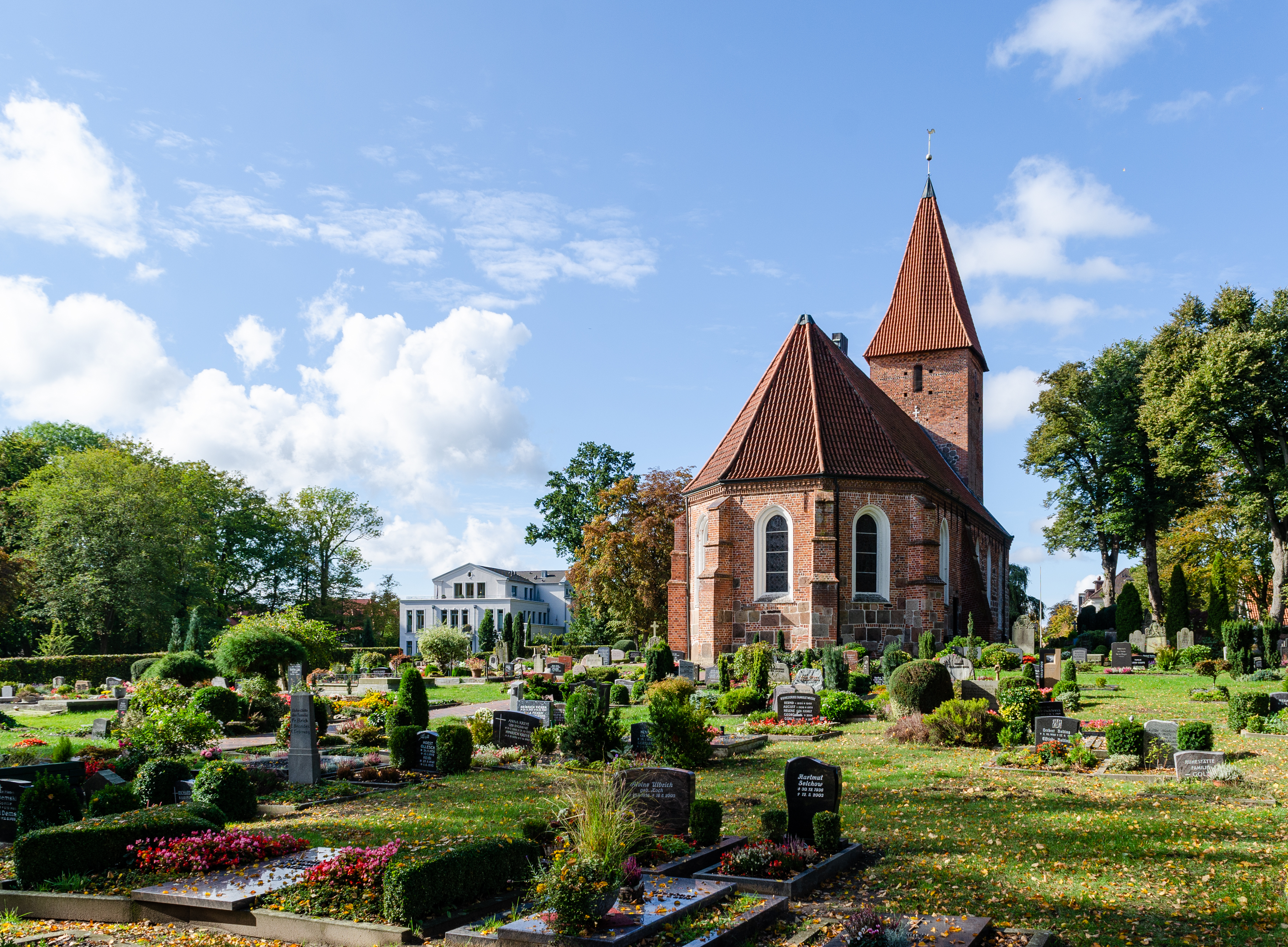 Rastede (Lower Saxony, Germany) – Lutheran Saint Ulrich's Church with cemetery – view from the northeast